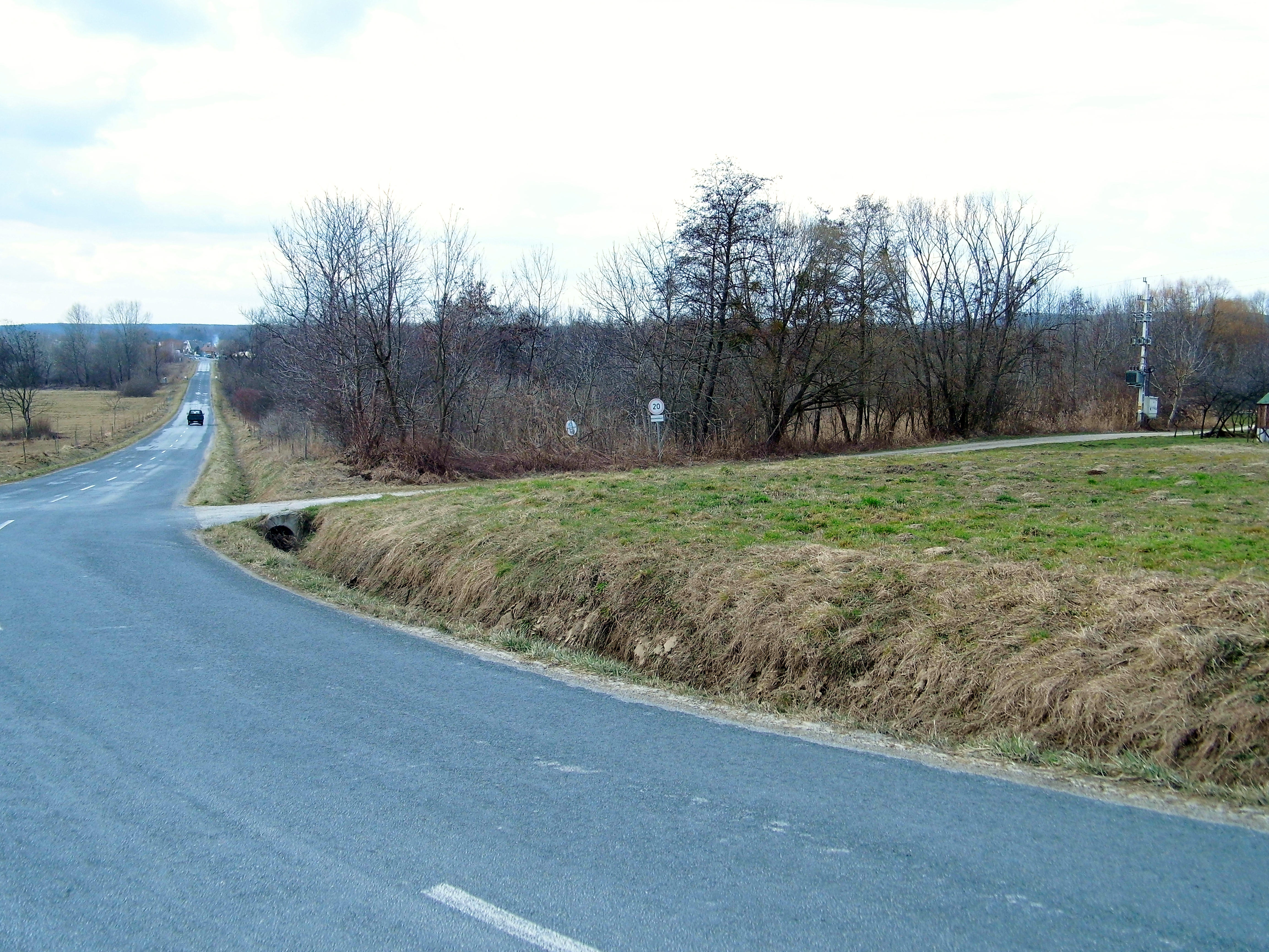 Trollius field between villages Ajkarendek and Bakonygyepes, Hungary